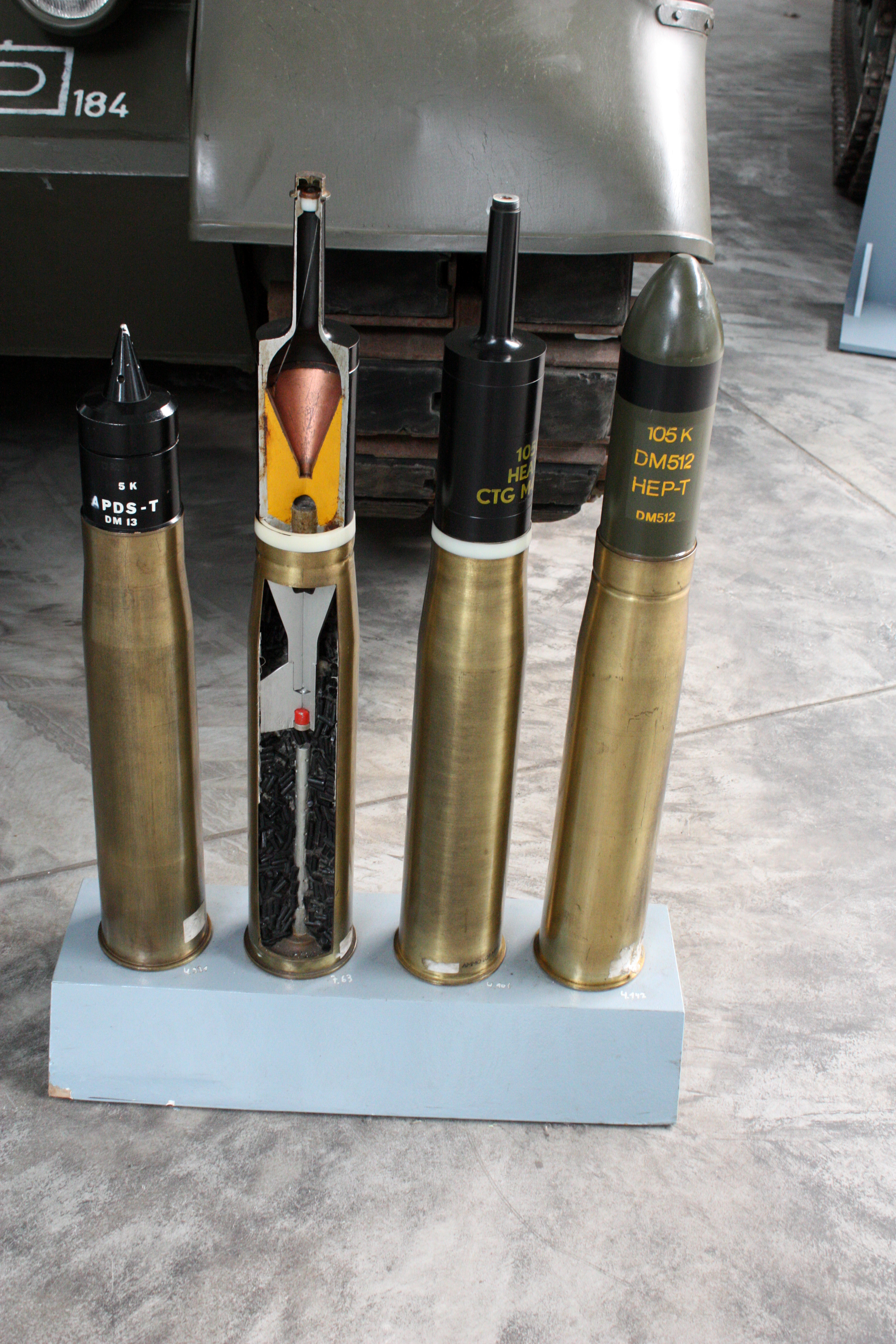 105 mm ammunition APDS, HEAT and HESH/HEP for german Leopard 1 tank at the German Tank Museum Munster.